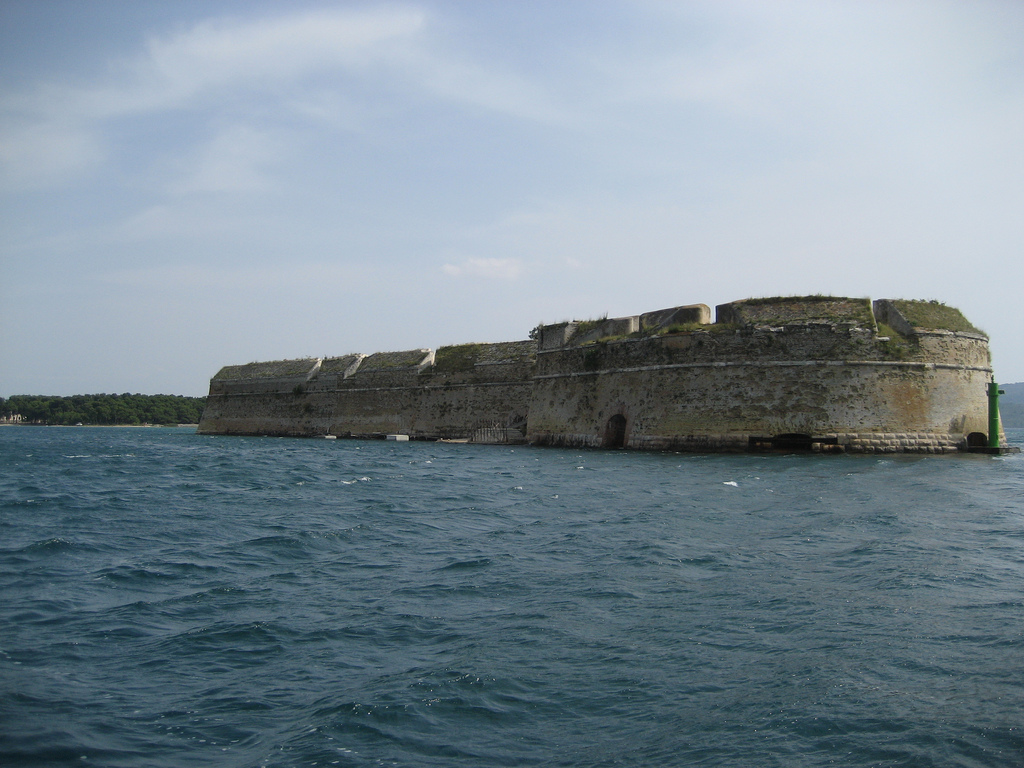 St. Nicholas fortress in Šibenik, Croatia.